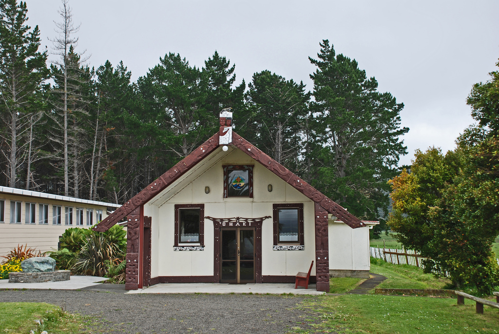 Wharenui, Roma marae, Ahipara, Northland, New Zealand